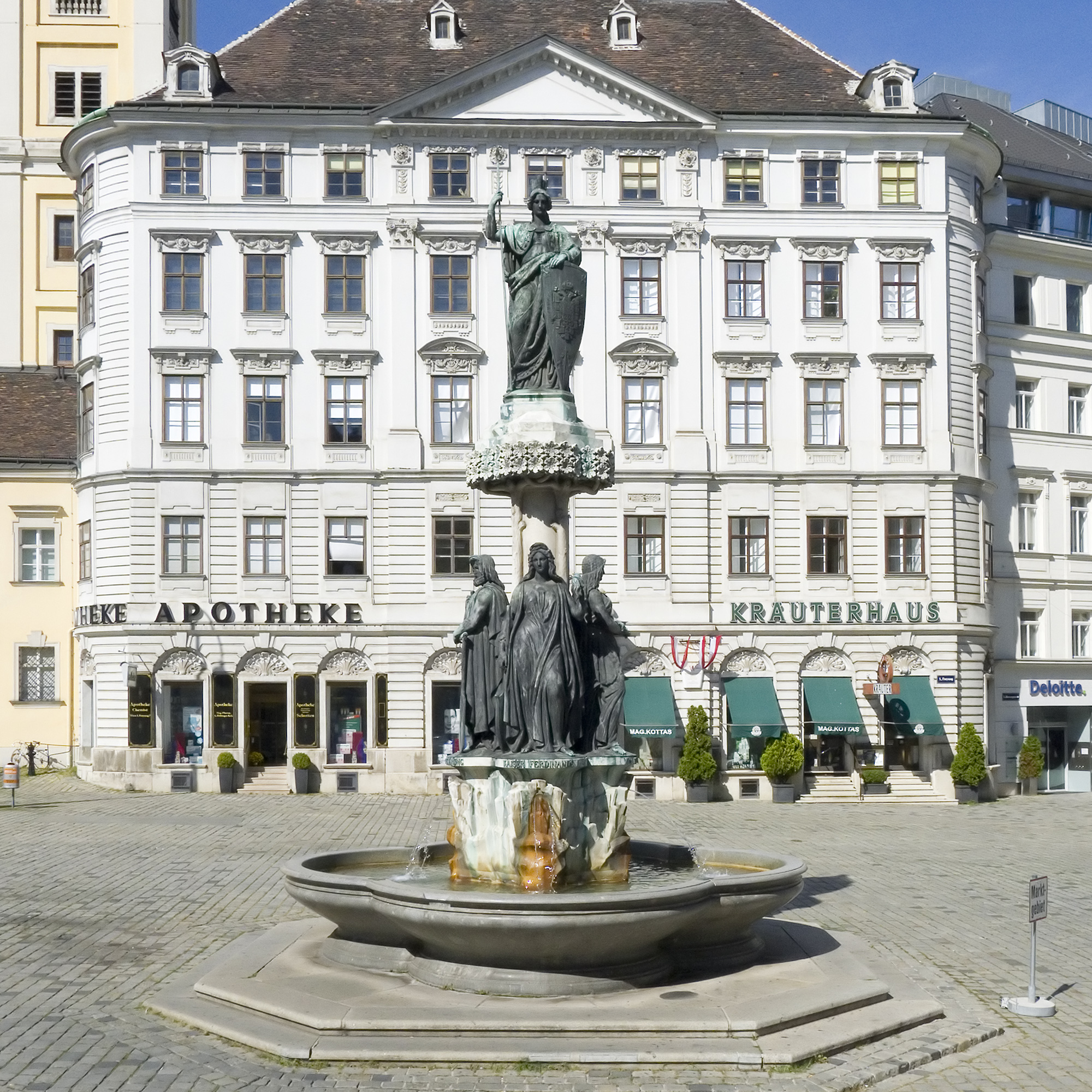 Fountain Austriabrunnen in Vienna 1